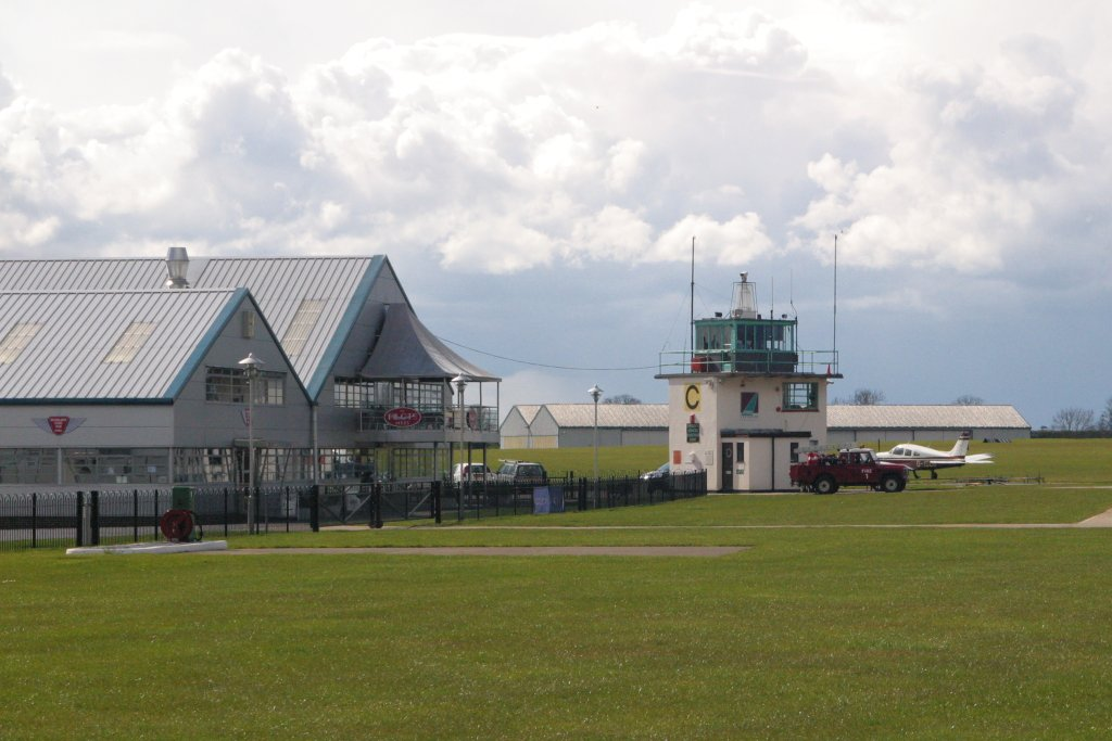 Sywell Aerodrome Tower and Hangars